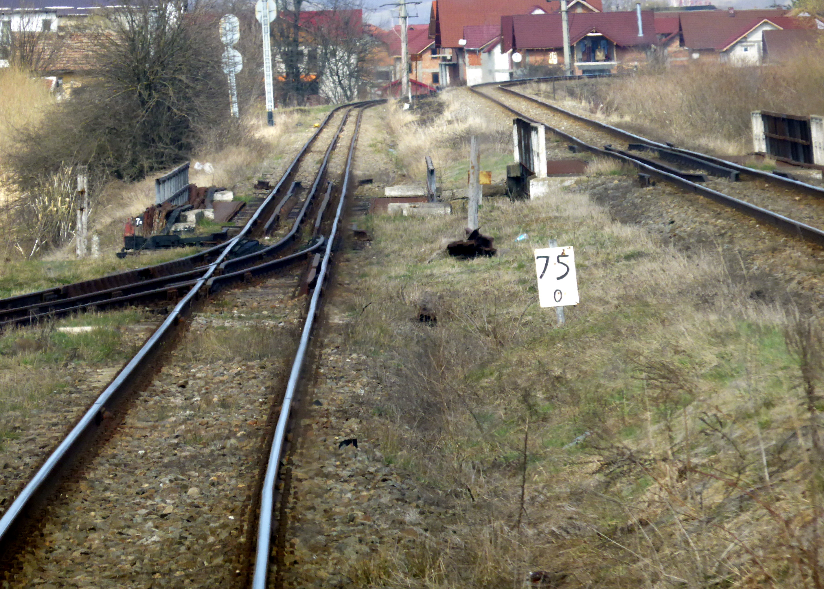 South of the Şelimbăr branch junction (Behind the switch rail bridge over the Stream.).